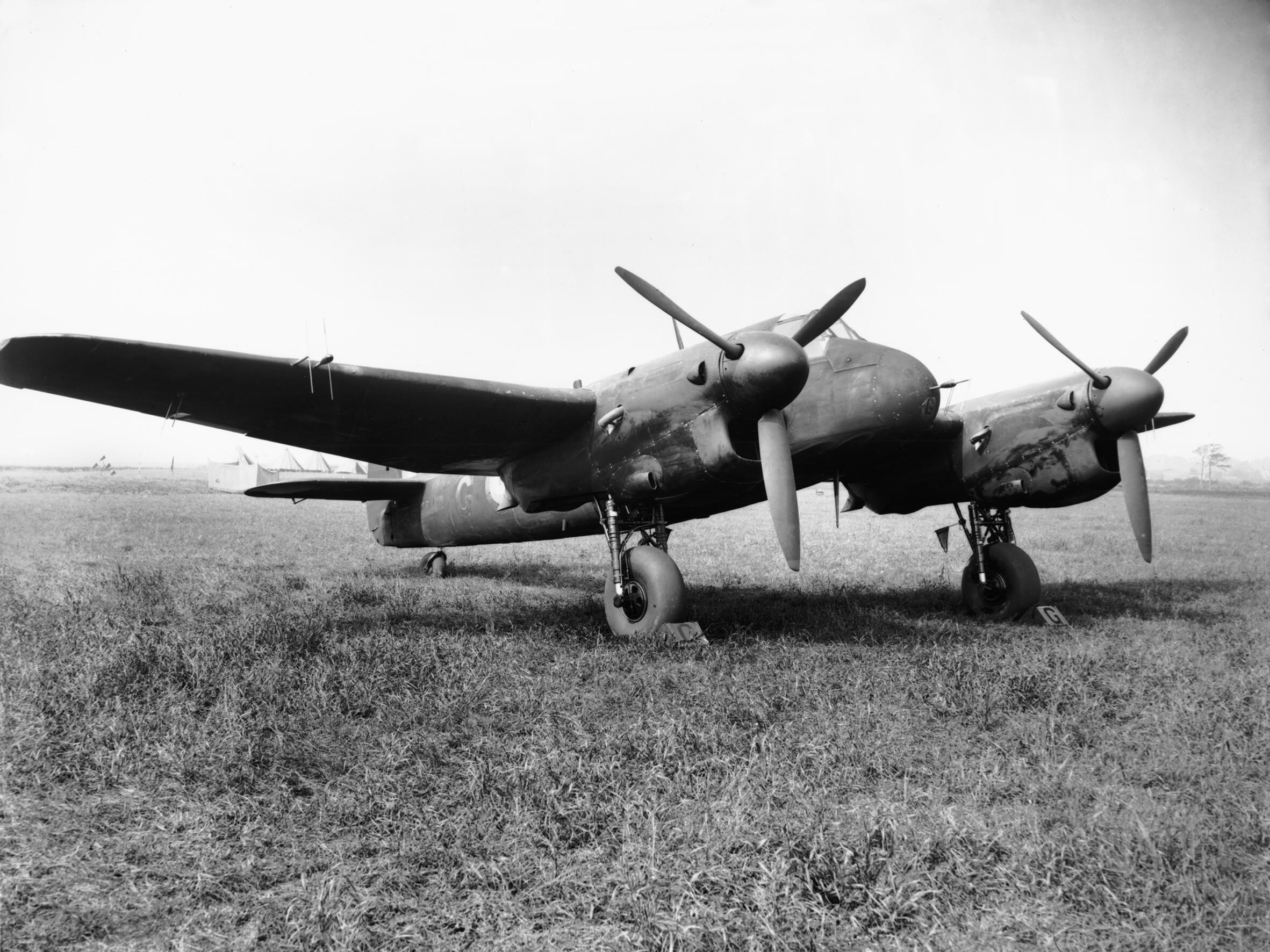 IWM caption : Beaufighter Mark IIF night fighter, R2402 ‘YD-G’, of No. 255 Squadron RAF, on the ground at Hibaldstow, Lincolnshire. This aircraft features AI Mark IV interception radar, and the unmodified flat tailplanes characteristic of early Beaufighter models. Subsequently, R2402 also served with No. 410 Squadron RCAF and with No, 54 Operational Training Unit.